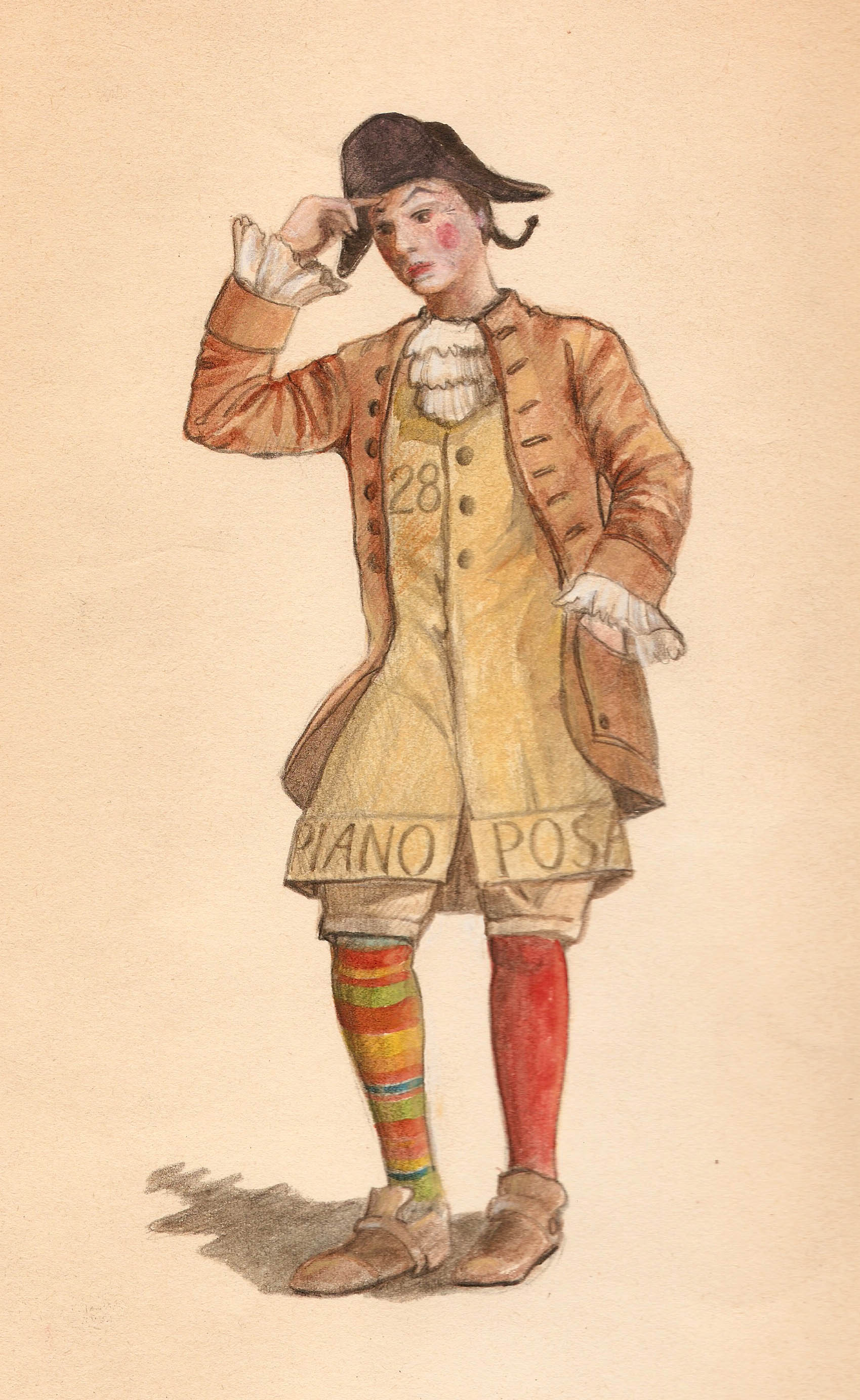 Stenterello original painting 1800